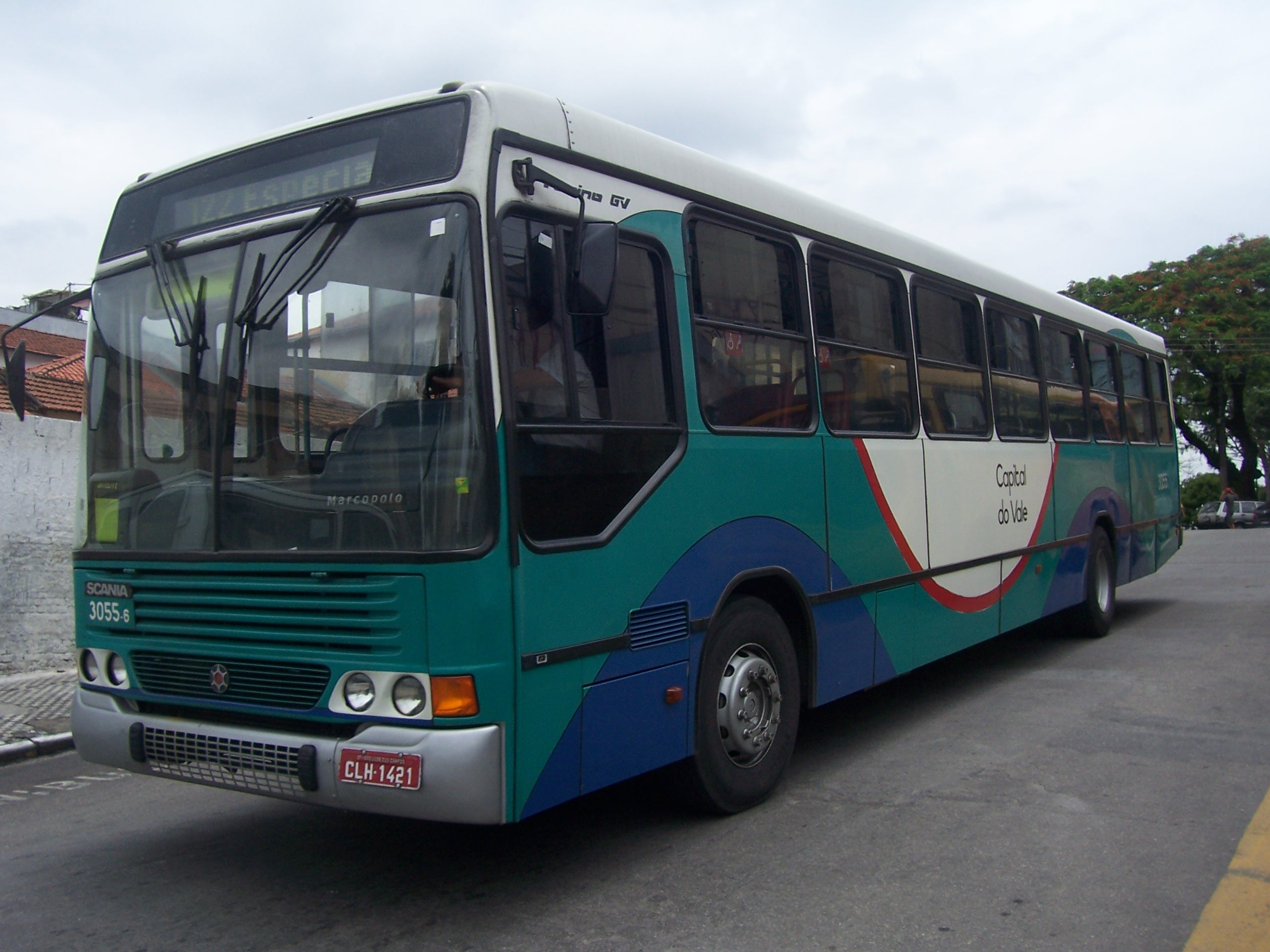 Marcopolo Torino GV bus (reg. CLH-1421, 3055) with Scania F-94 chassis in Brazil. Capital do Vale.